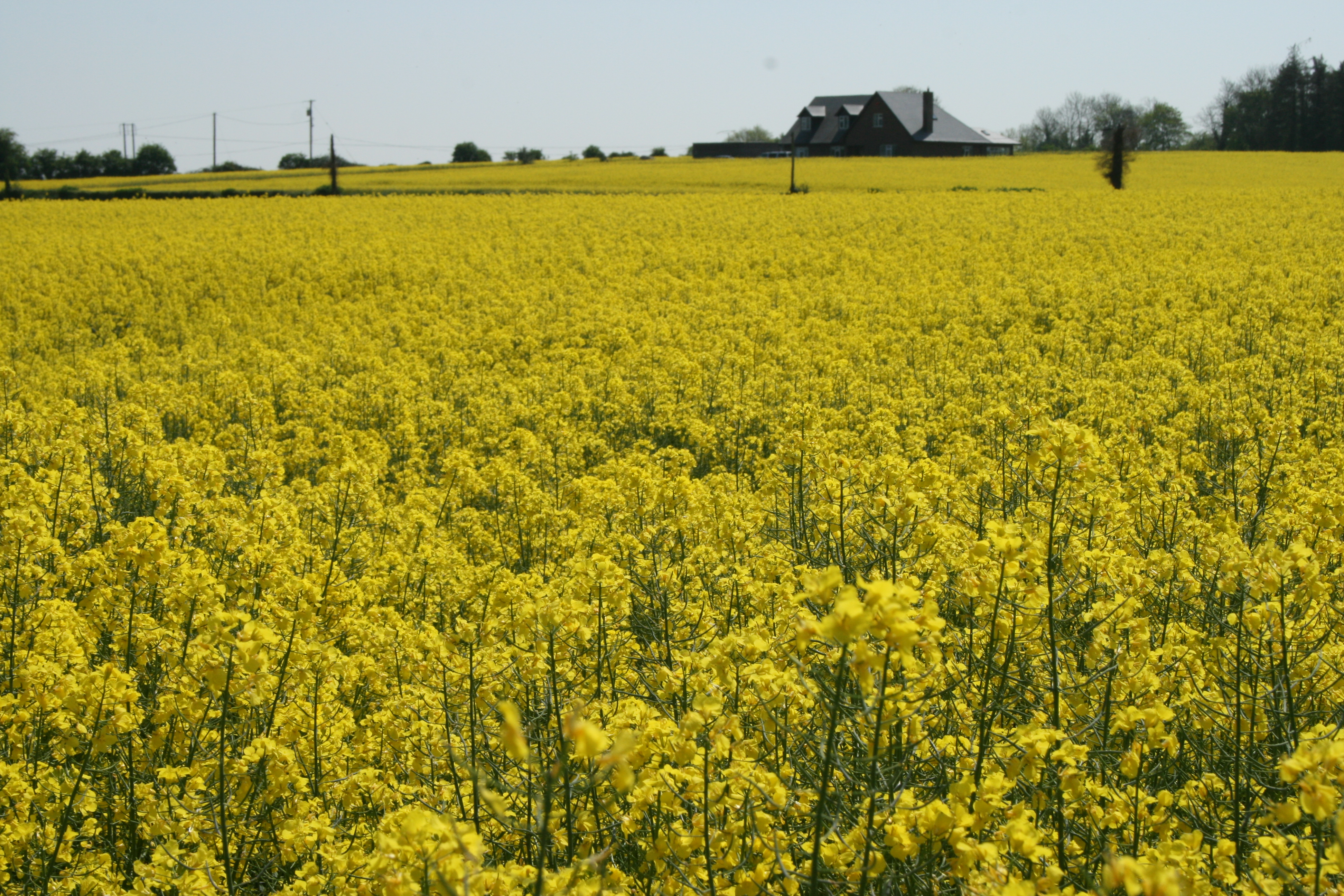 Rapefield in Killerig, Co. Carlow